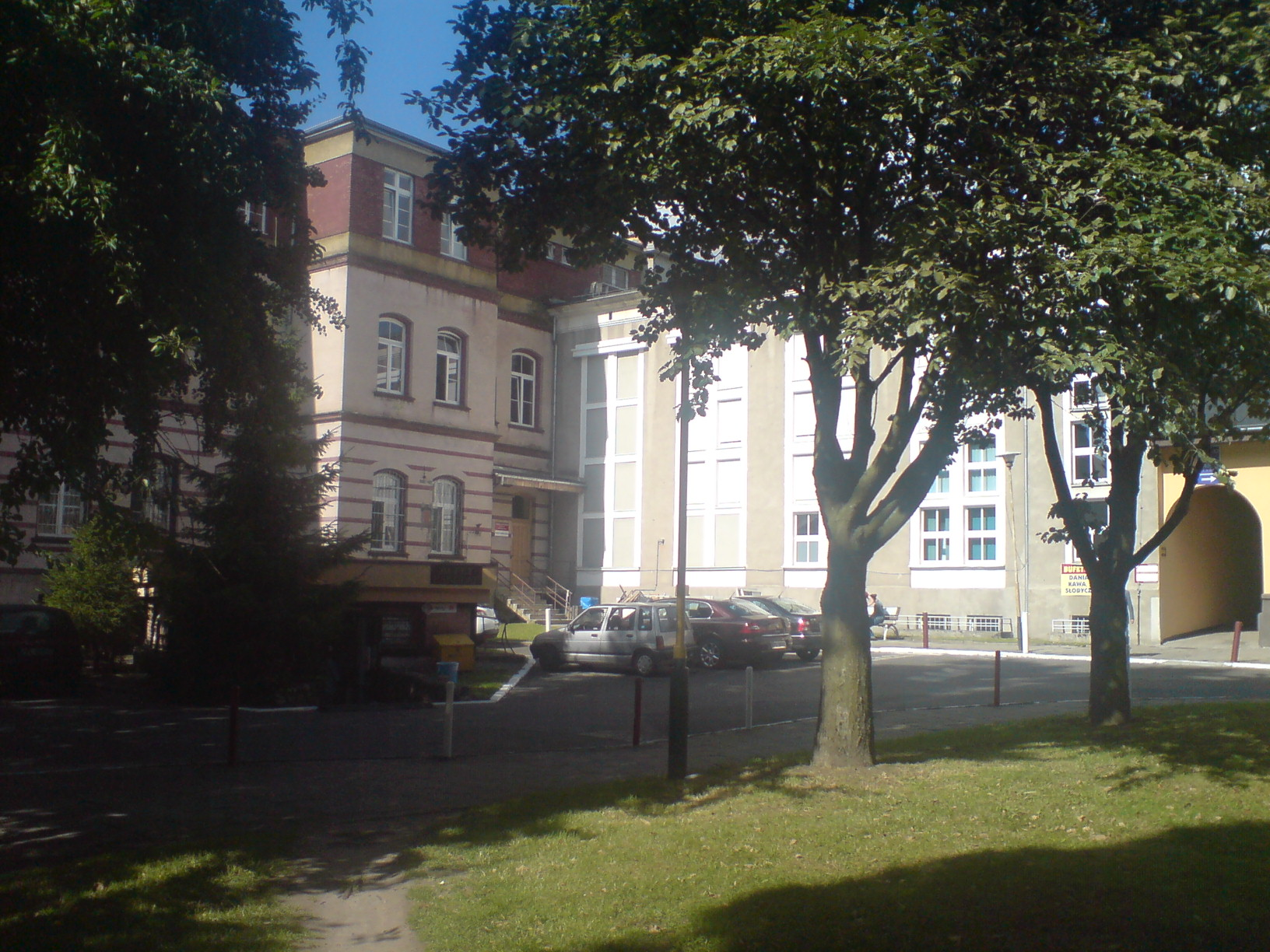 Department of Clinical Allergology and Department of Prosthodontics Pomeranian Medical University in Szczecin